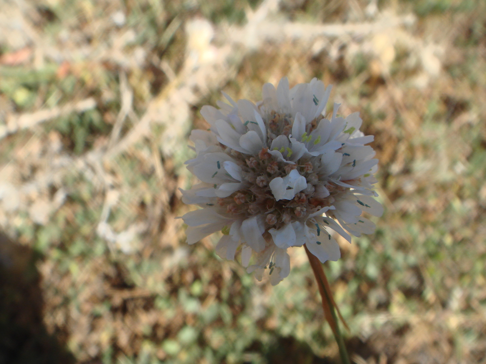 (Armeria arenaria ssp. segoviensis). Spain, Sierra de Ávila